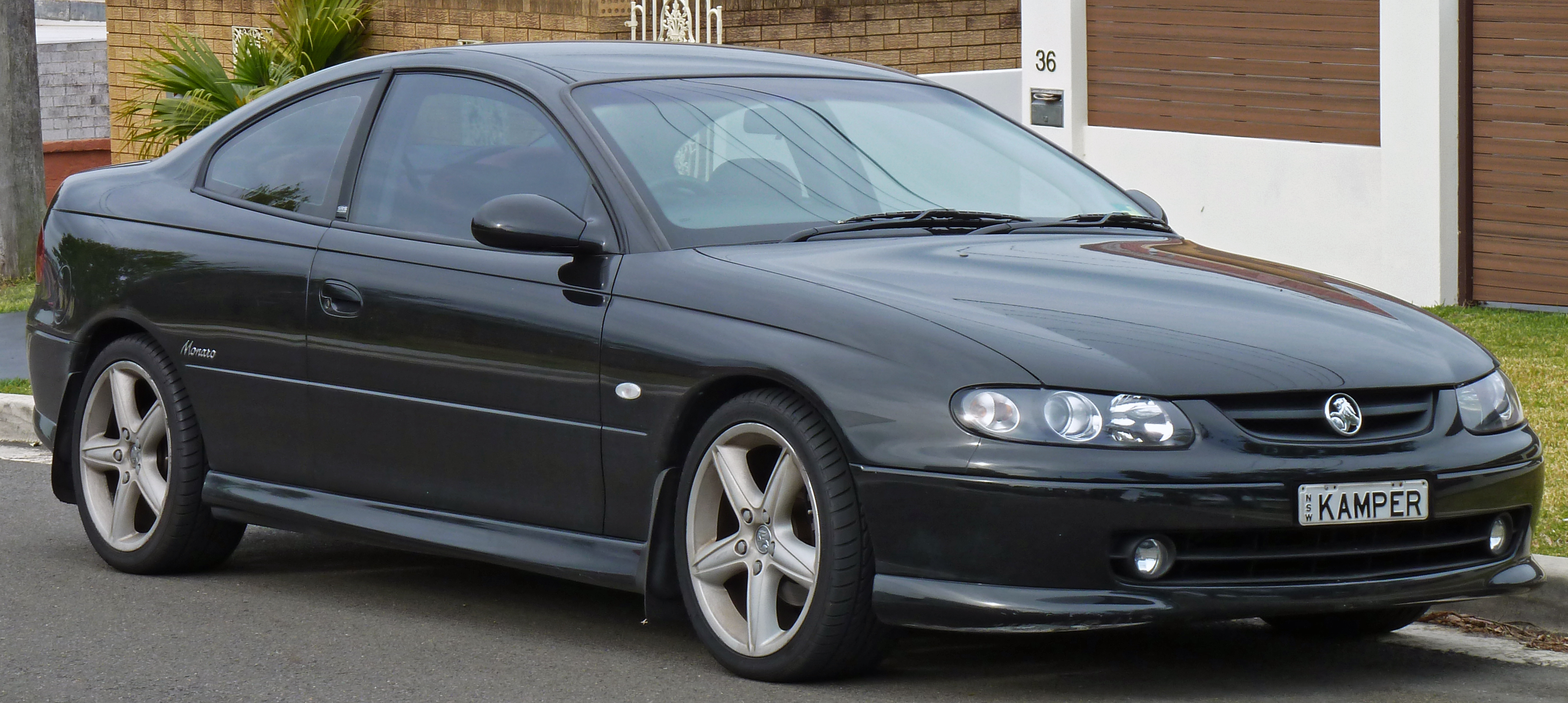 2001–2002 Holden Monaro (V2) CV8 coupe. Photographed in Taren Point, New South Wales, Australia.